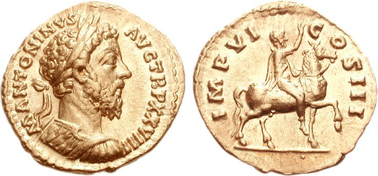 Marcus Aurelius. AD 161-180. AV Aureus (7.40 g, 12h). Rome mint. Struck AD 174. M ANTONINVS AVG TR P XXVIII, laureate and cuirassed bust right / IMP VI COS III, Marcus Aurelius, togate, on horseback prancing right, raising right hand. RIC III 295; MIR 18, 264-2/35; Calicó 1870 (same dies as illustration); BMCRE 590 var. (bust type). Near EF, lustrous, light scratch on reverse. The reverse depicts the famous equestrian statue of Marcus Aurelius that has stood in Rome since it was first erected. It survived the Middle Ages because it was thought to represent Constantine, the first Christian emperor, and is the only surviving complete equestrian statue of a pre-Christian emperor. The statue’s original location is uncertain. In the 8th century it stood in the Lateran Palace, and in 1538 it was moved from there to the Capitoline Hill as a feature of Michelangelo’s redesign. It stood on the Capitoline until it was replaced with a copy in 1981.